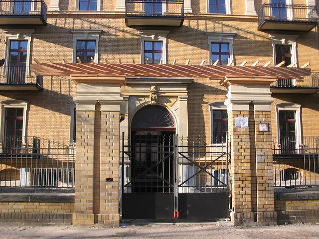 Listed building, former „Gertrauden-Hospital“, in Berlin-Kreuzberg. Built by Friedrich Koch in 1871/73 and 1883/84. Side entrance at Großbeerenstraße.